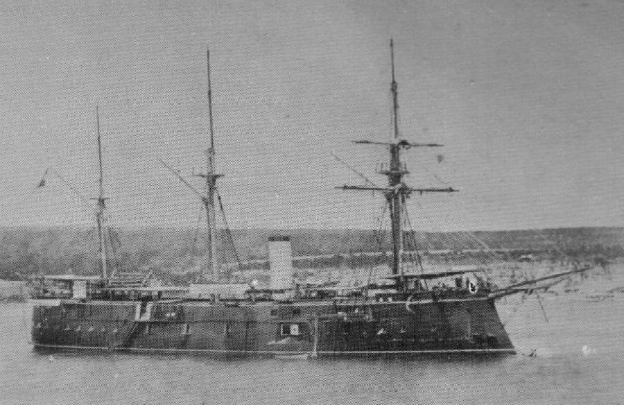 Austro-Hungarian Ironclad Prinz Eugen, launched 1877. Officially, this was a "rebuild" of the original Prinz Eugen of 1863, but in reality it was a brand new ship.